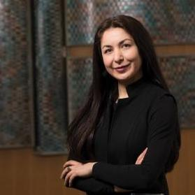 Portrait of Athena Sefat, American Physicist